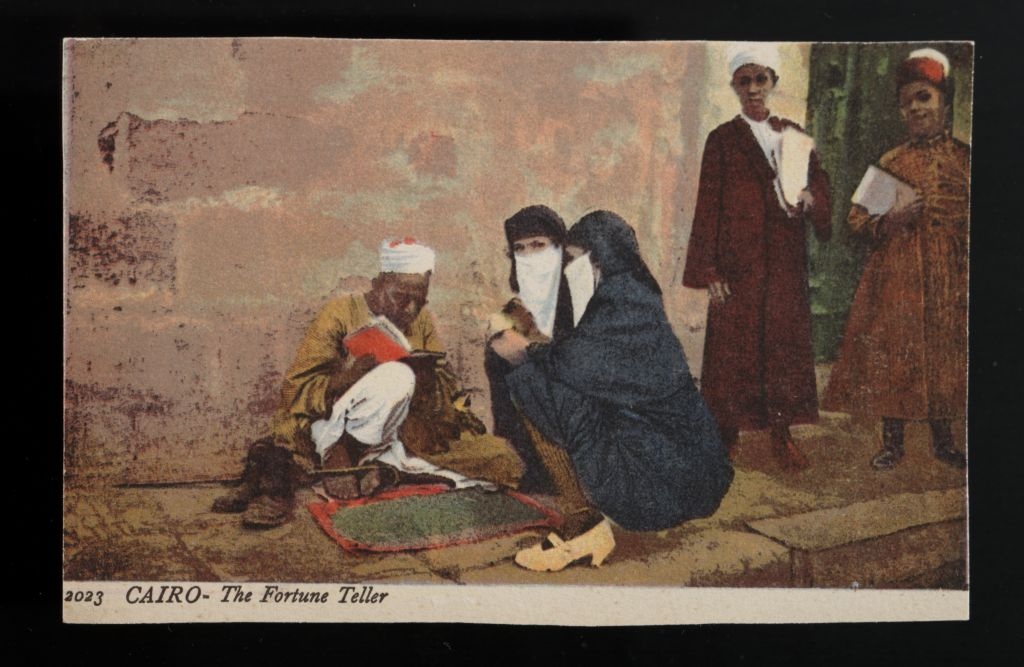 Women getting their fortune read by an older man